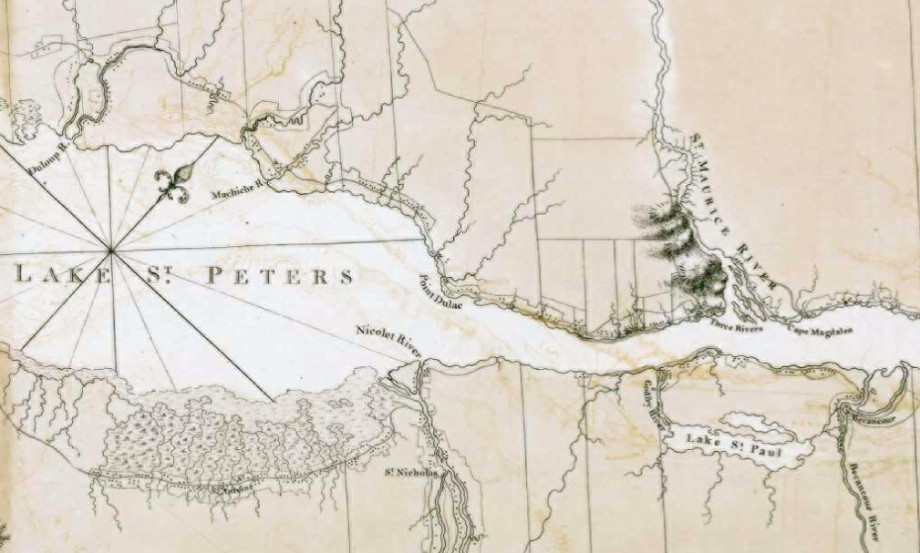 This is a detail from the source map, which is entitled: River of St. Lawrence, from Chaudiere to Lake St. Francis, &c. surveyed in pursuance... to Samuel Holland This detail shows Lac St.-Pierre in the Saint Lawrence River, as well as the communities of Trois-Rivières, Nicolet, Pointe du Lac, and Rivière du Loup.